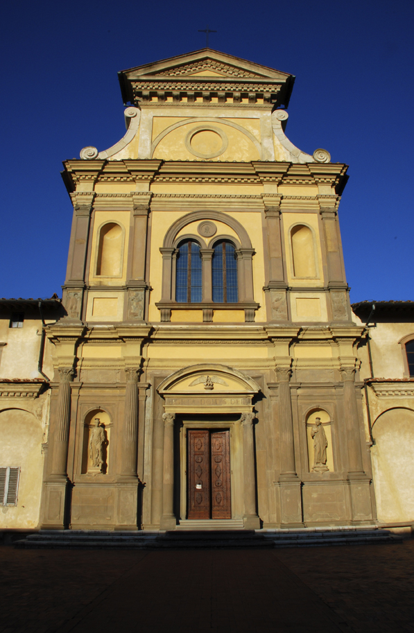 Certosa del Galluzzo, Florence, Italy. The church of San Lorenzo. Facade.